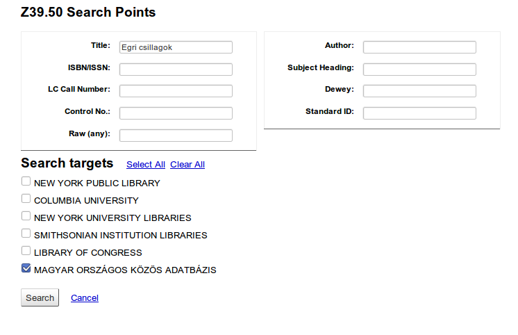 Using Z39.50 in Koha